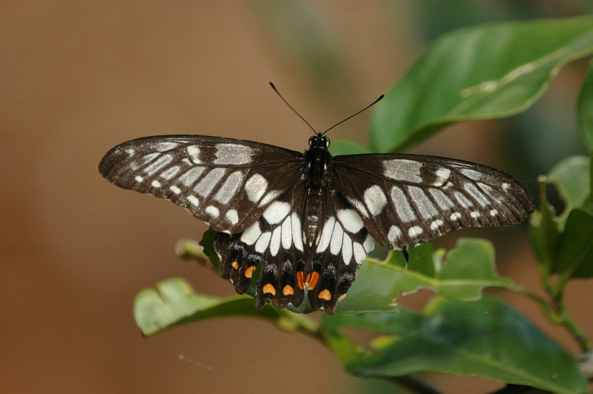 Dainty Swallowtail (Papilio anactus) Kobble Creek, SE Queensland, Australia